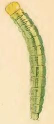 Stainton’s Natural History of the Tineina (1855–1873): Carcina quercana